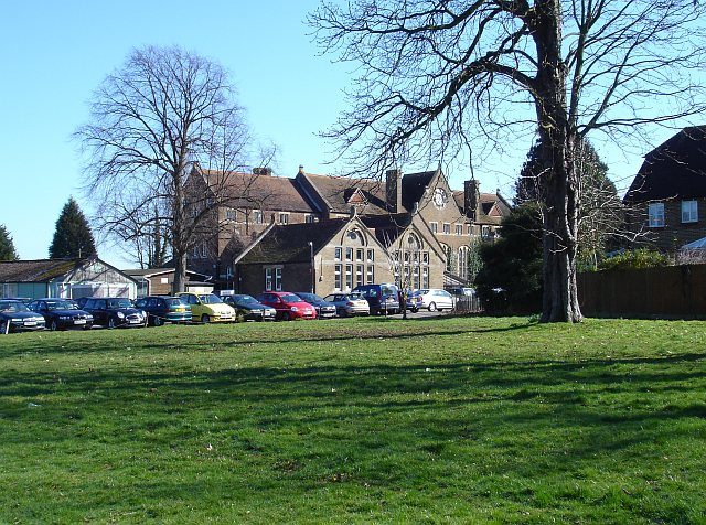 Sittingbourne Adult Education College I'm told by Philip Pankhurst that this was the original Borden Grammar School. It became the Kent Farm Institute when the school moved to its current premises in Central Avenue (TQ905633)in the 1920s. It later became a teacher training college. In recent years part of the playing fields have been sold off for building development (houses on right of shot) and the fencing round the old tennis courts has been removed.